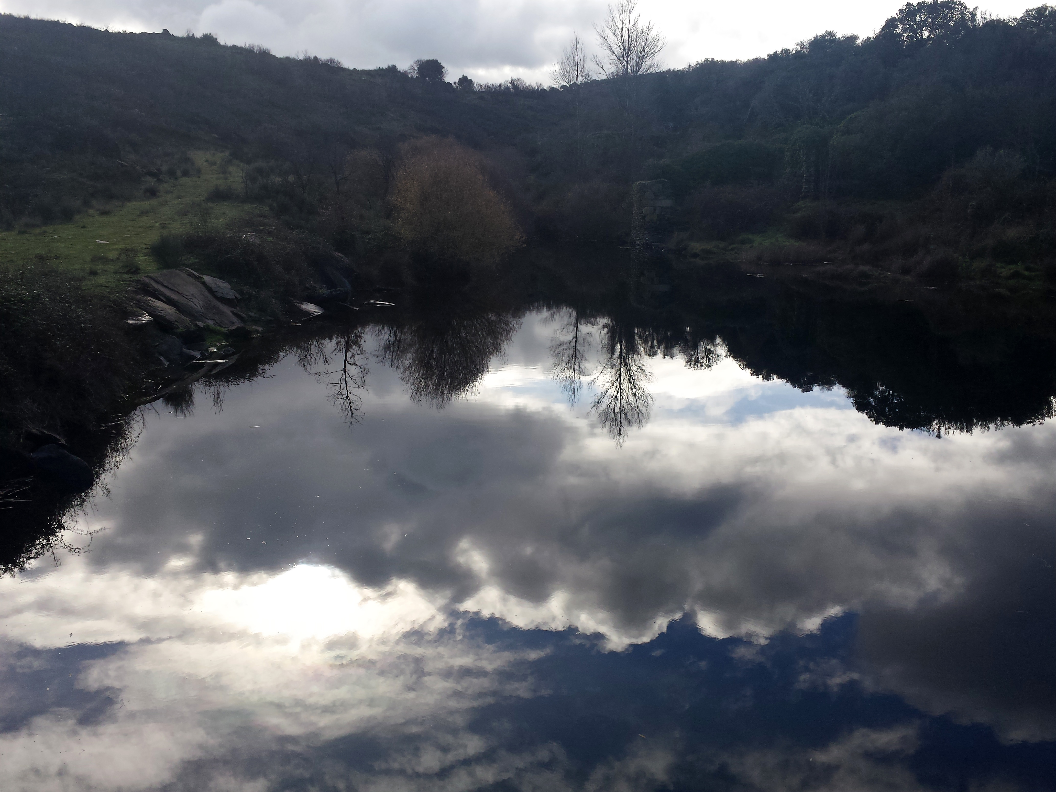 River Turones from the bridge betwen Escarigo (Guarda, Portugal) and La Bouza (Salamanca, Spain).